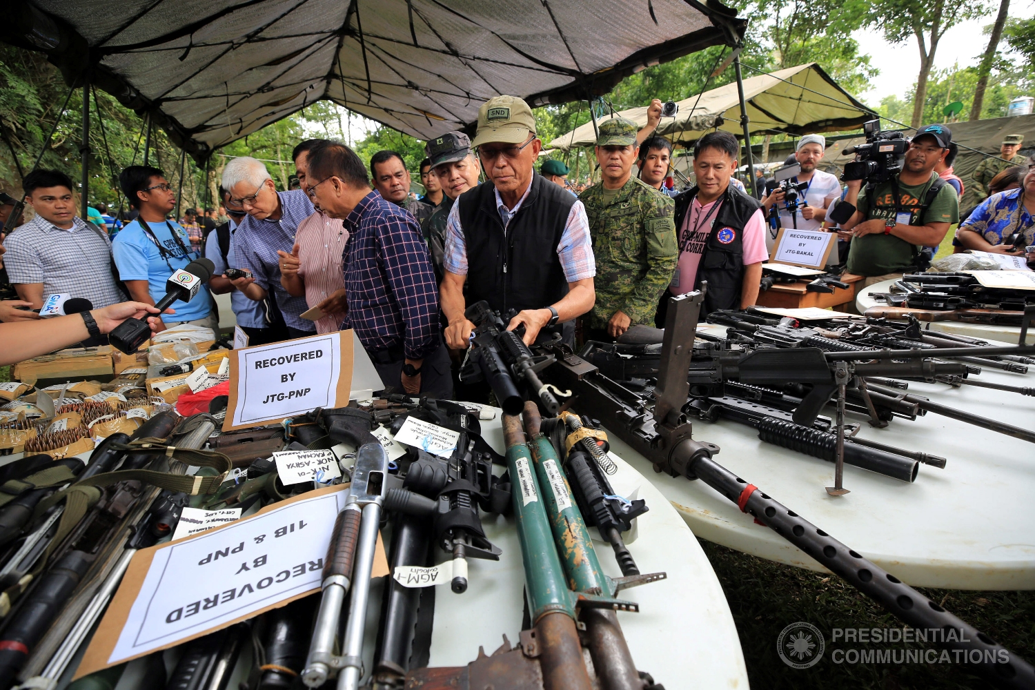 Recovered firearms from local terrorists inspected by some Cabinet Secretaries in Marawi on June 9, 2017.